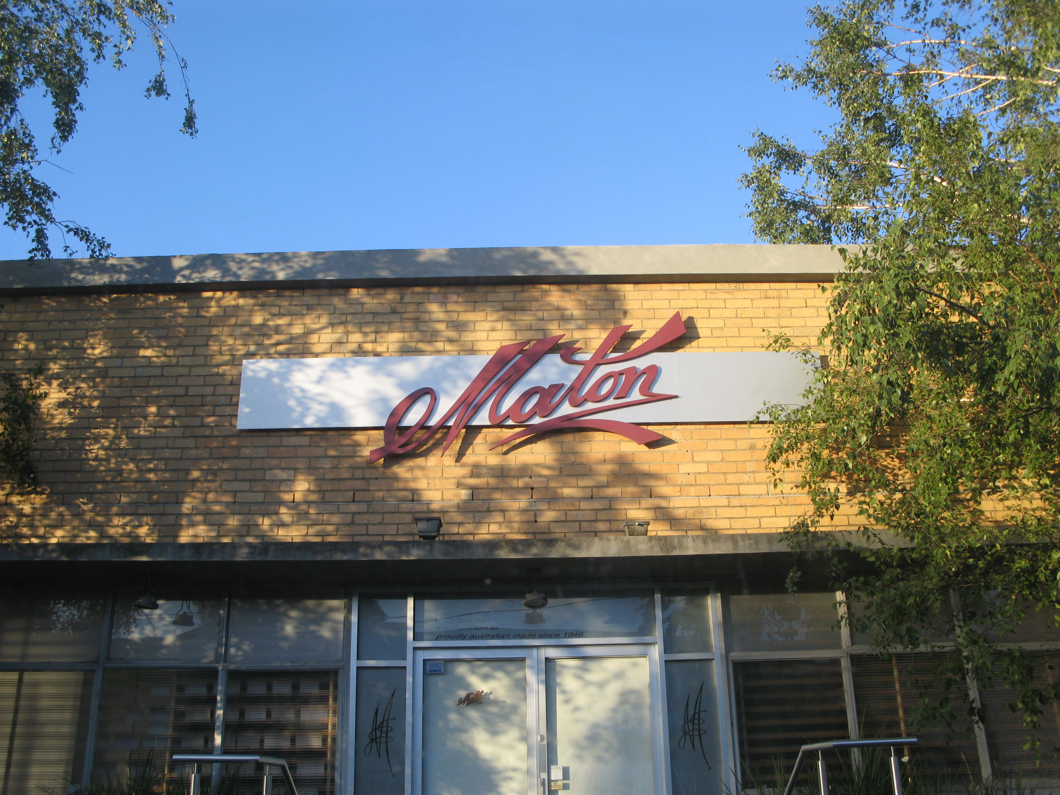 The entrance to the Maton Guitar Factory in Box Hill, Melbourne, Victoria, Australia.